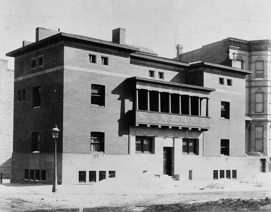 James Charnley House, 1365 North Astor Street, Chicago, Cook County, IL.